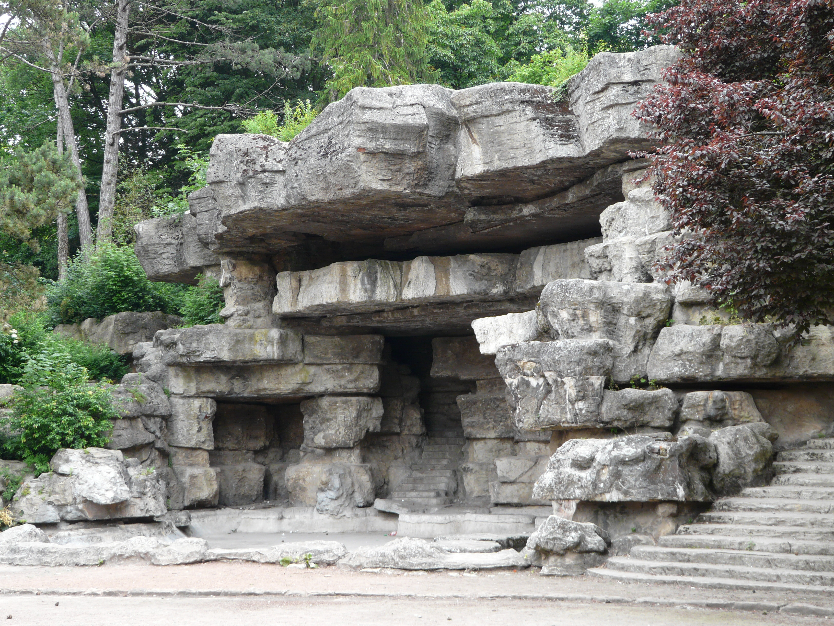 the "grotto" from the early 19th C which has given its name to this part of the public park in Cambrai ("jardin des grottes"). Now (2010) awaiting rehabilitation